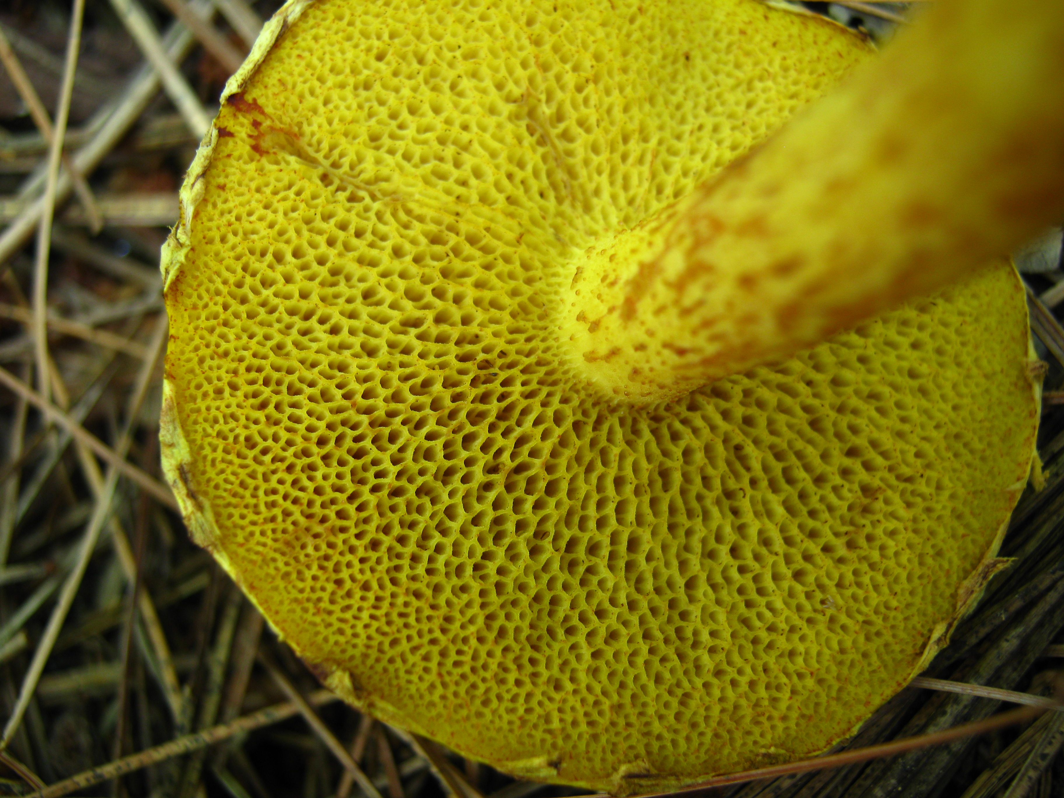 The pore surface of the mushroom Suillus americanus (Peck) Snell. Specimen found in a forest near Elgin Street, Pembroke, Ontario, Canada.